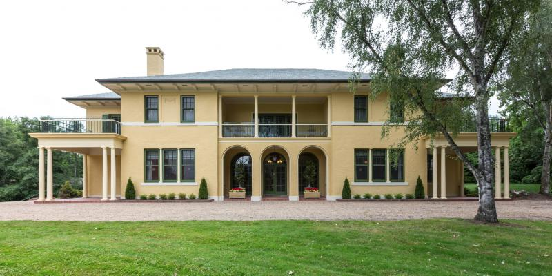 The Lodge in Canberra after recent renovations.